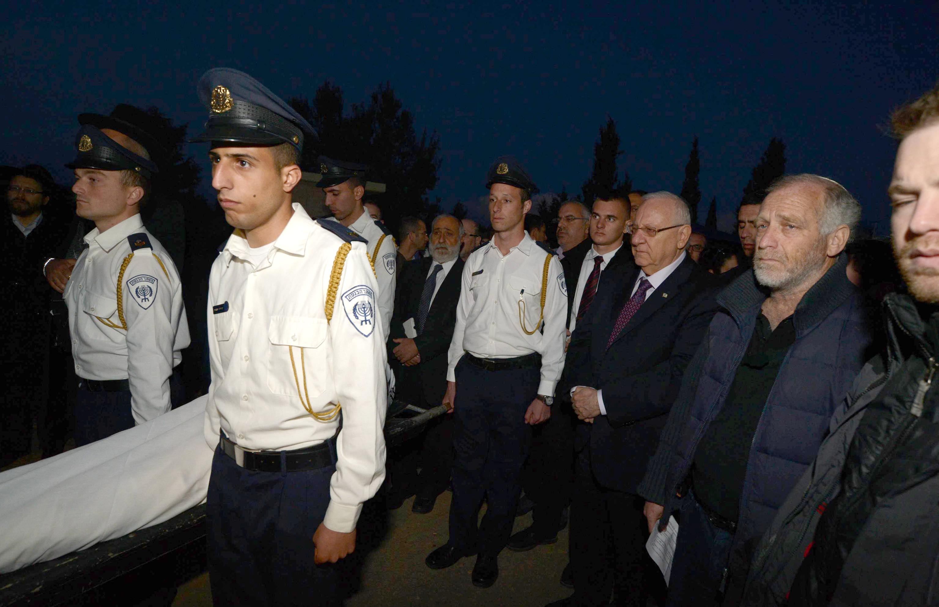 The Knesset Guard carrying the body of the late minister and Knesset Member Uri Orbach at his funeral, Modi'in cemetery, Feb. 16 2015